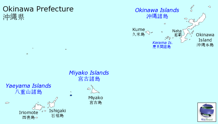 The location of Tarama Village in Okinawa.